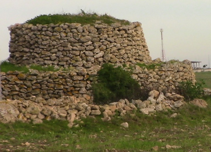 A Tazota at the south of the city of el-Jadida, Morocco